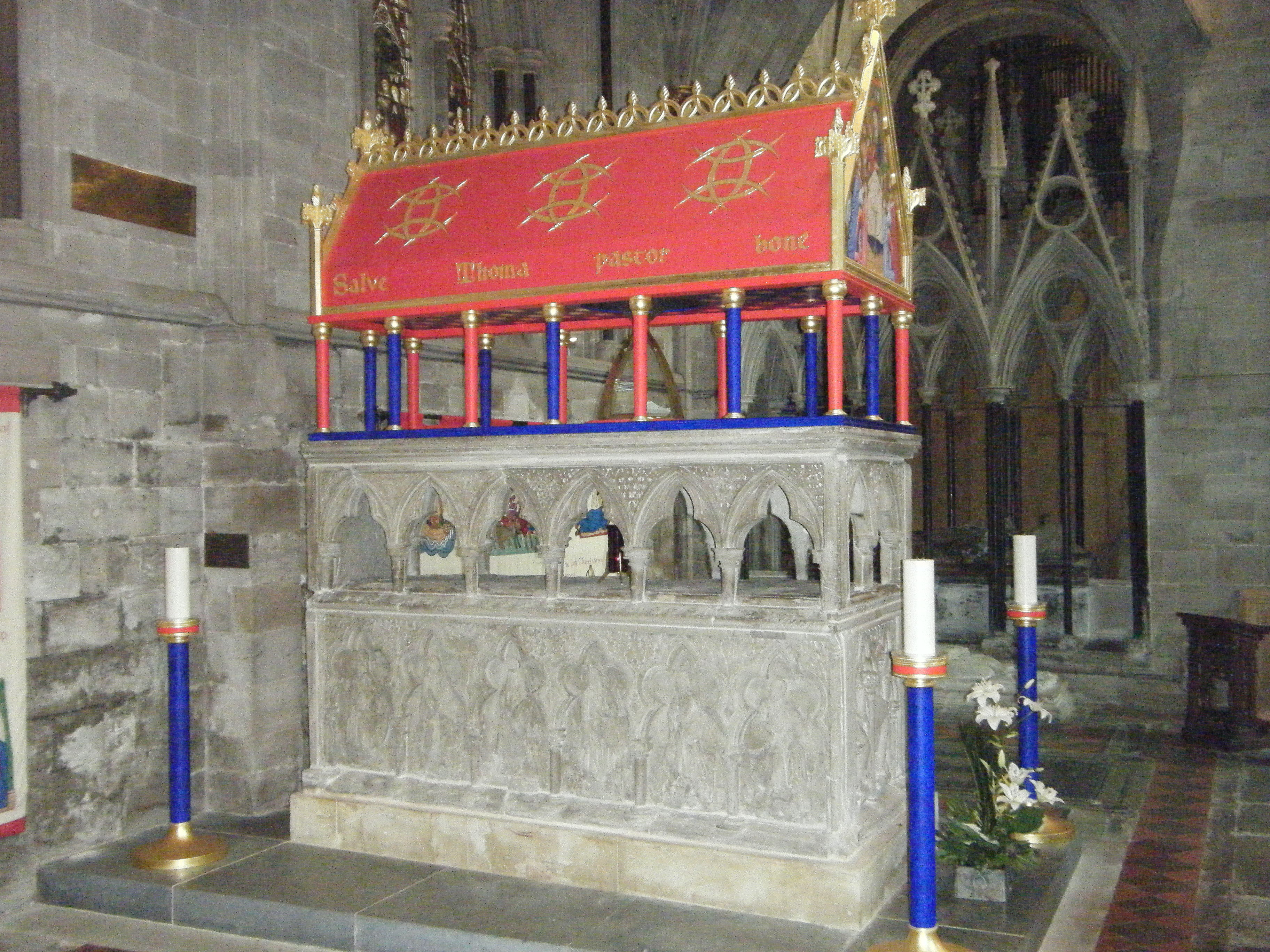 The tomb of Pastor Thomas at Hereford Cathedral, 06/12.